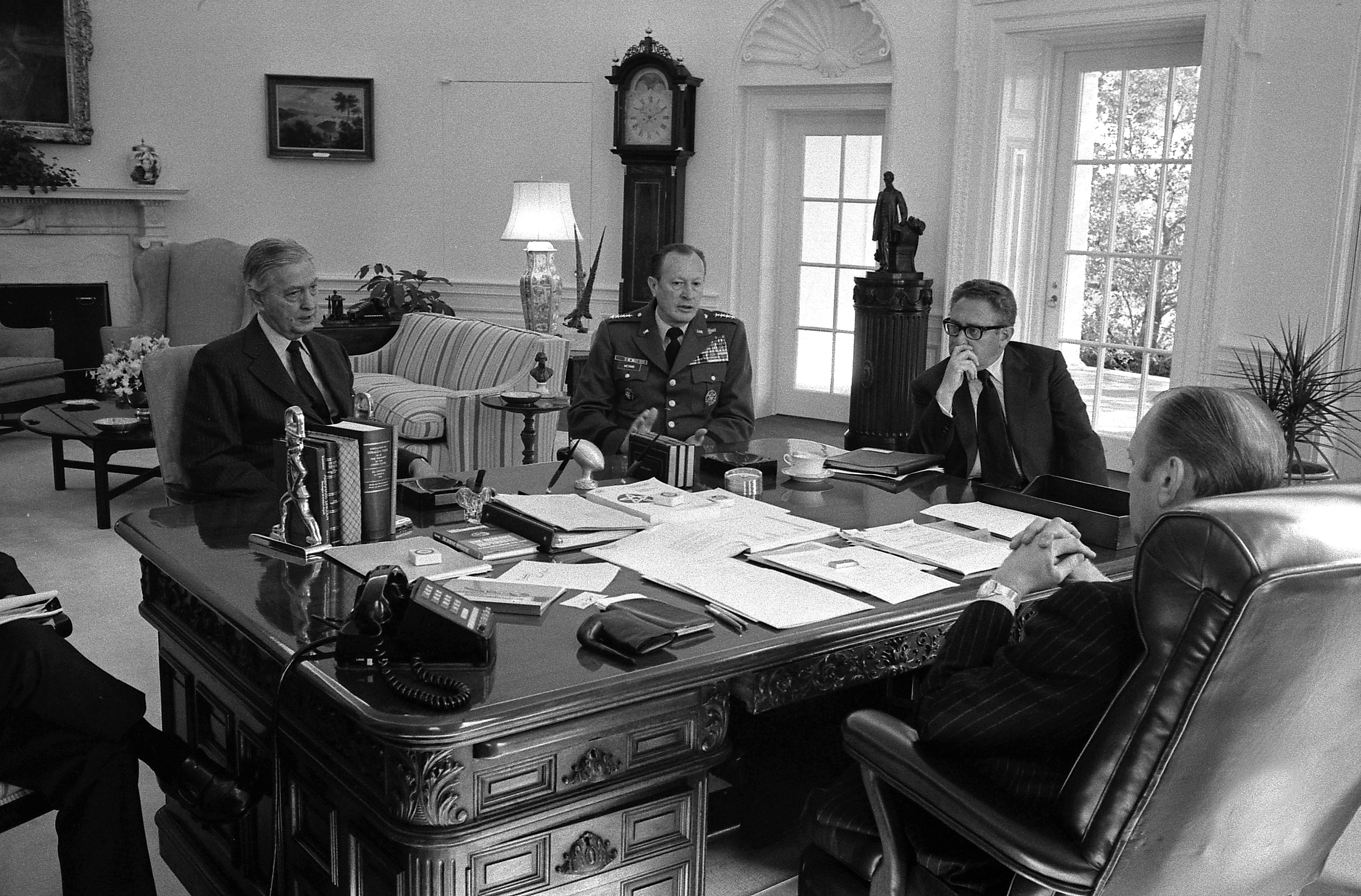 Photograph of President Ford Meeting with Secretary of State Henry Kissinger, Army Chief of Staff General Frederick Weyand, and Graham Martin, Ambassador to Vietnam, in the Oval Office.